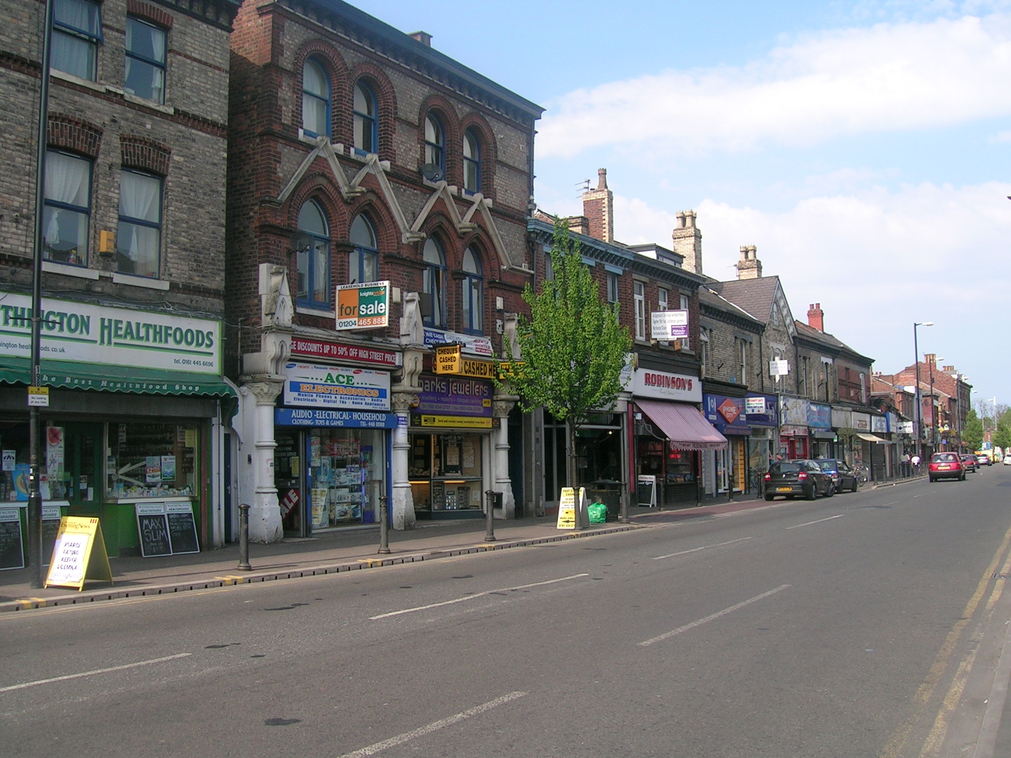 A partial shot of the large centre of what is Withington.